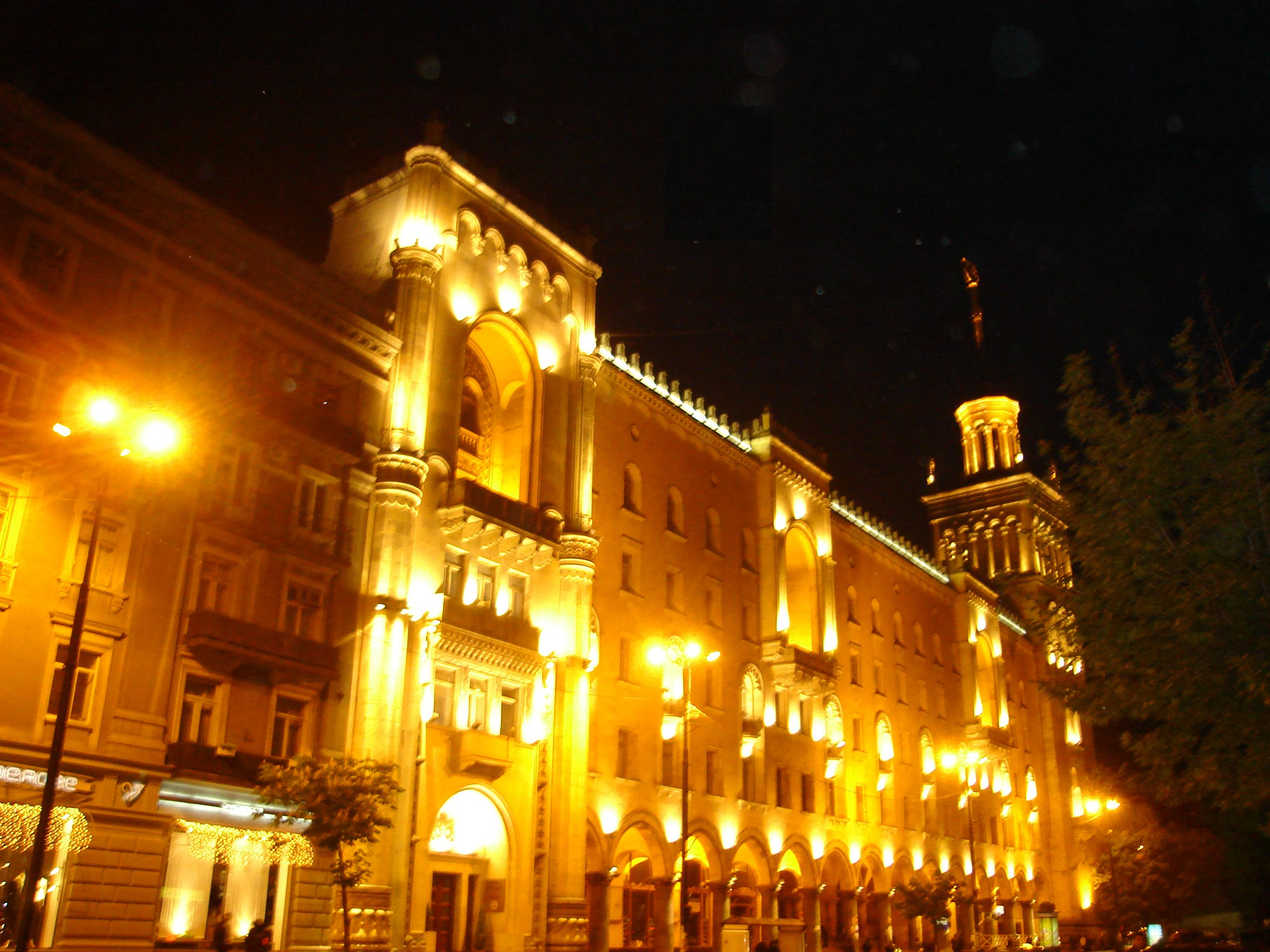 Georgian Academy of Sciences, Tbilisi, Georgia